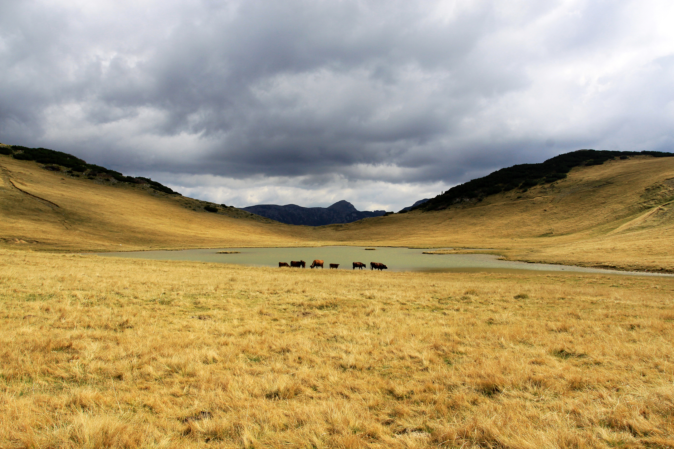 Yellowish landscape of Lumbardhi mountain in Rugova gorge